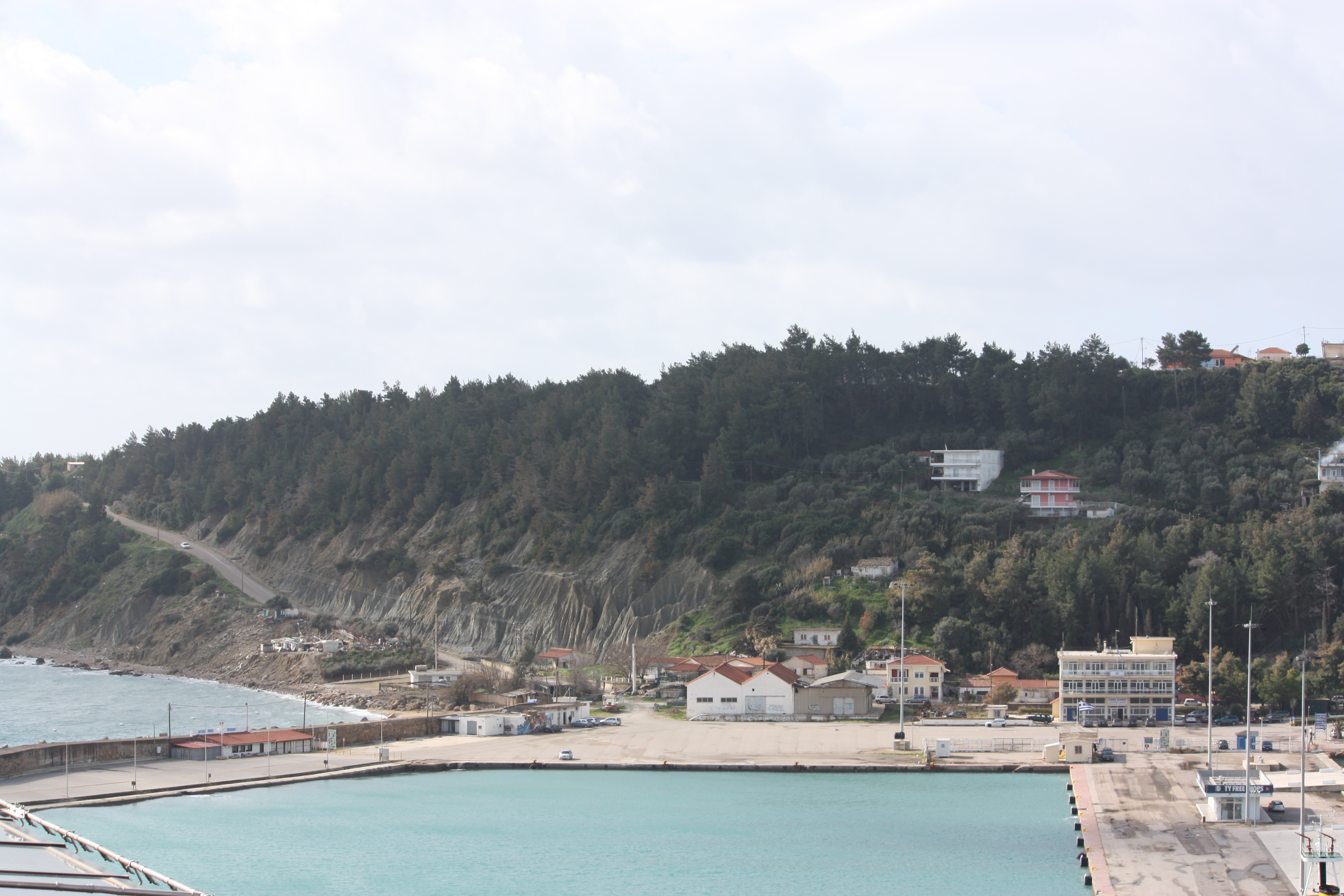 Dock and coastline in Katakolo, Greece from a ship in the Kyparissian Gulf.